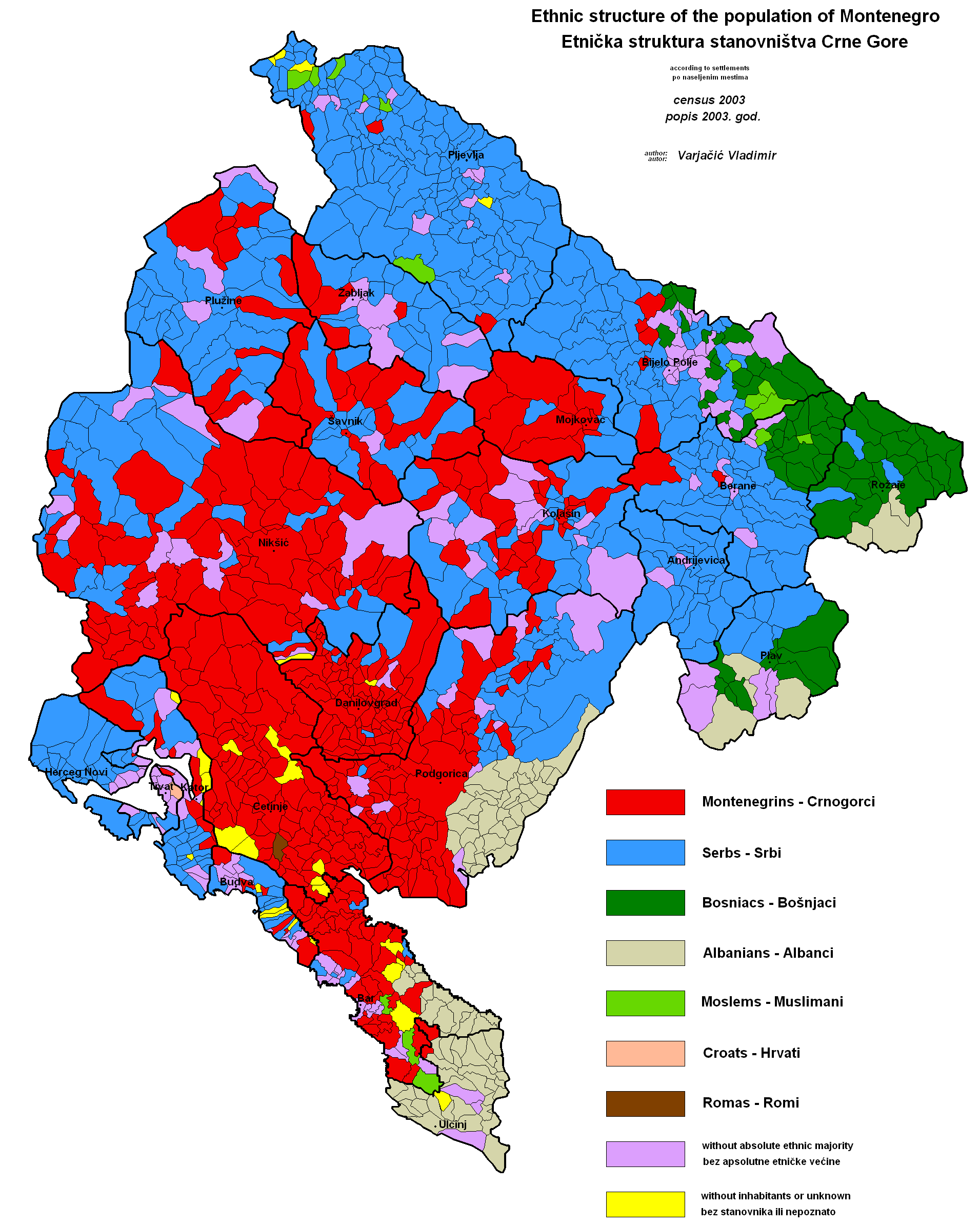 Ethnic map of Montenegro according to the 2003 census.